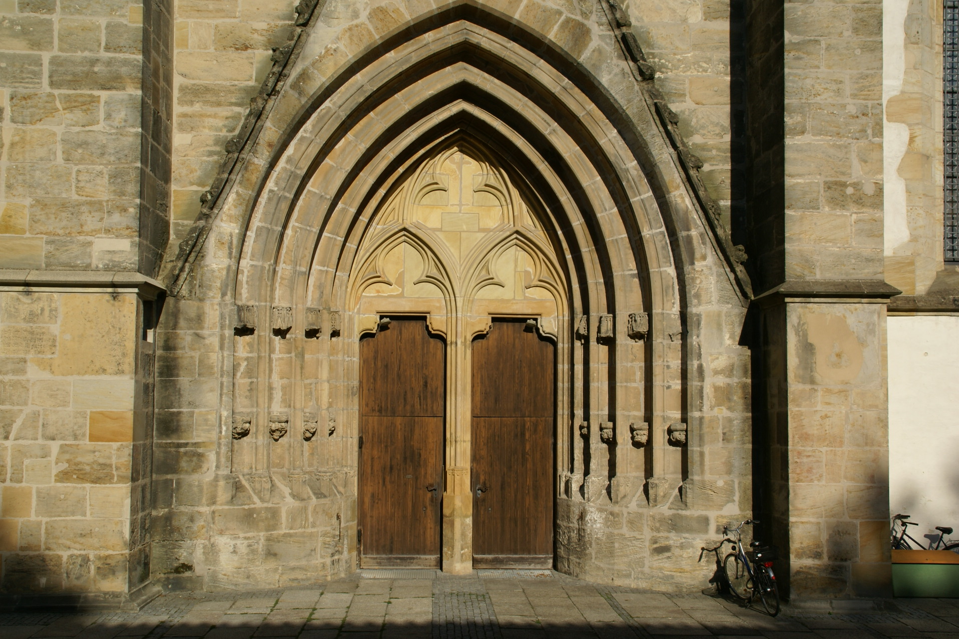 Entrance of St. Georg Church in Amberg, Germany